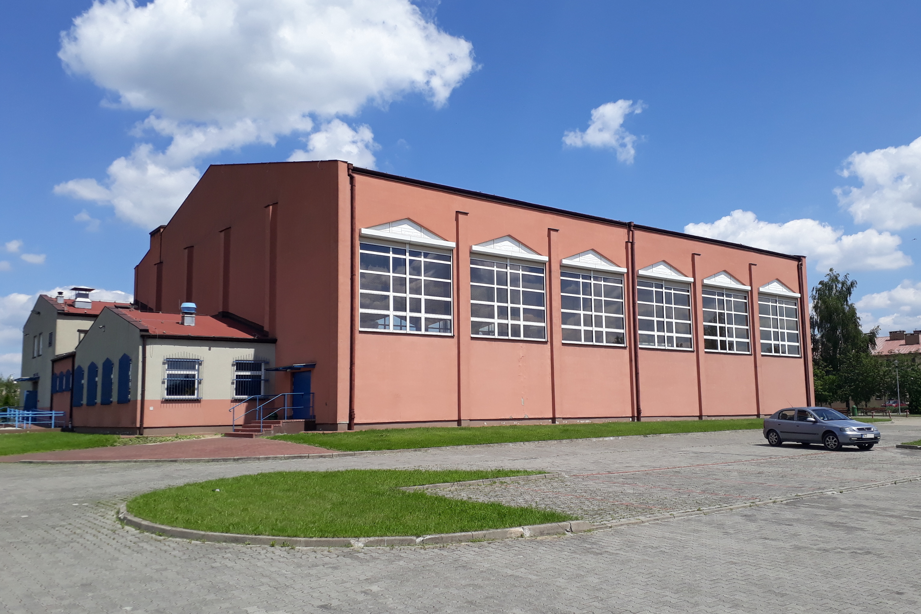 Sports hall in Rędziny